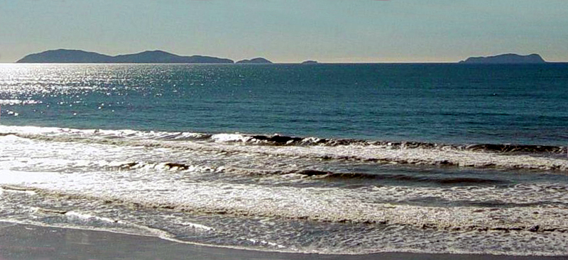 Coronado Islands, view from the shores in Tijuana, Mexico.